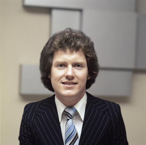 Portrait of Red Hurley at the day of the Eurovision Song Contest 1976